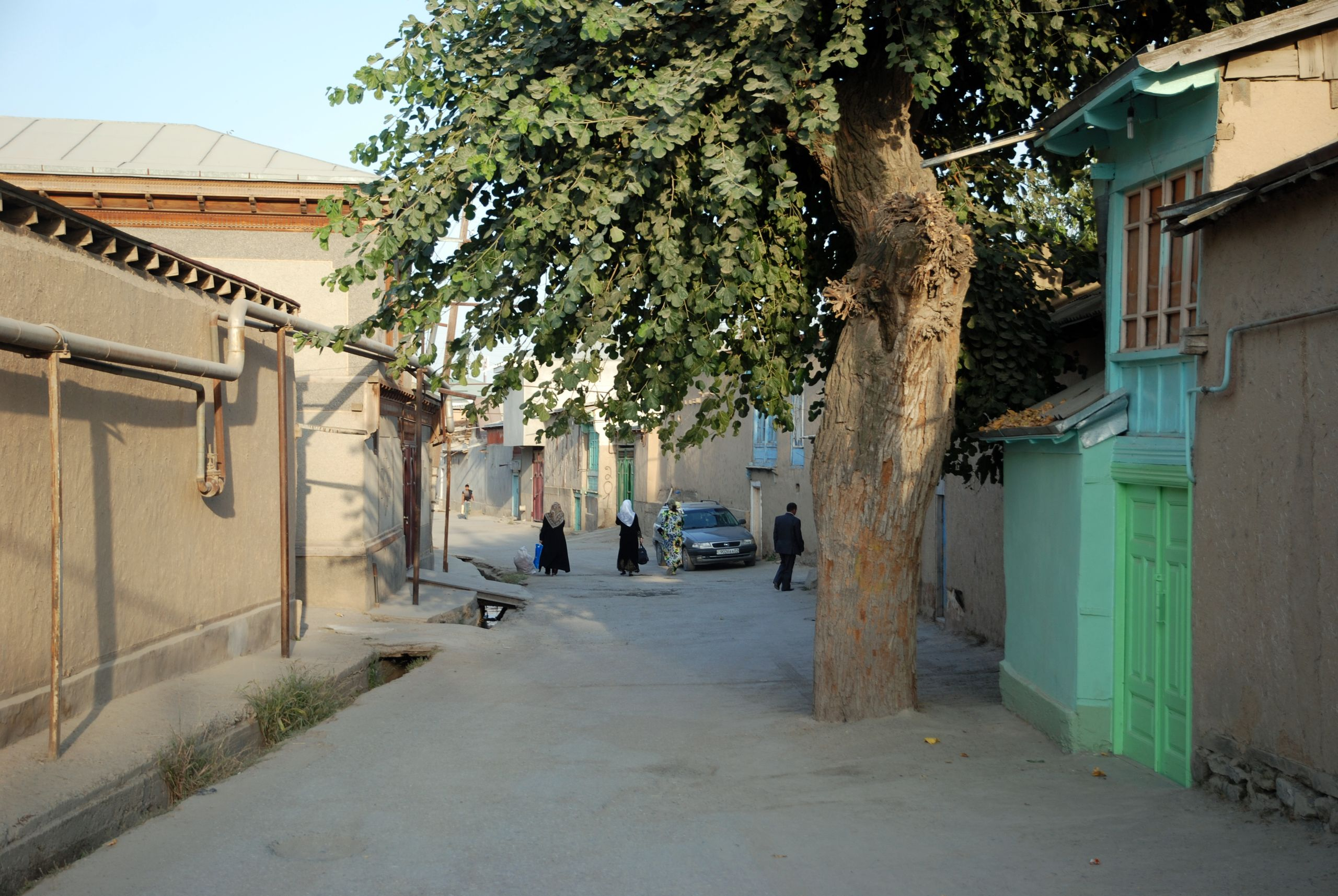 Istaravshan, old town (krupskaya street)